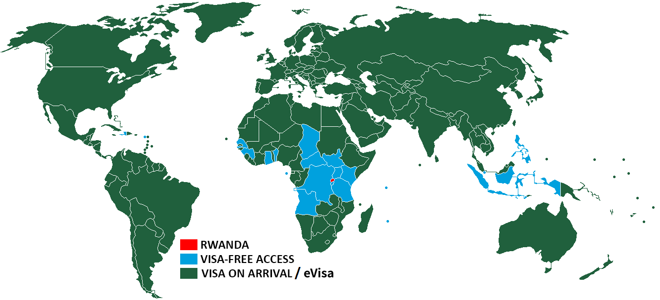 Visa policy of Rwanda Rwanda Visa-free access Visa on arrival